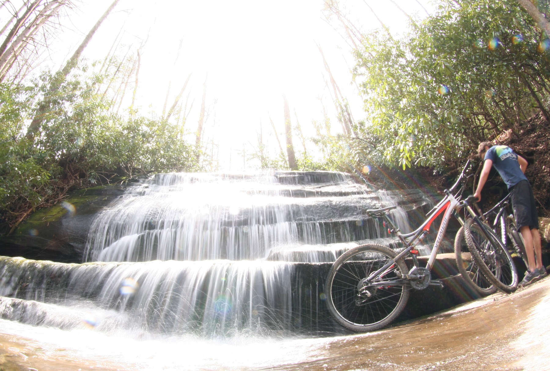 A view of a waterfall in Pisgah National Forest. The waterfall can be seen from the Butter Gap Trail (trail for hiking and mountain biking).